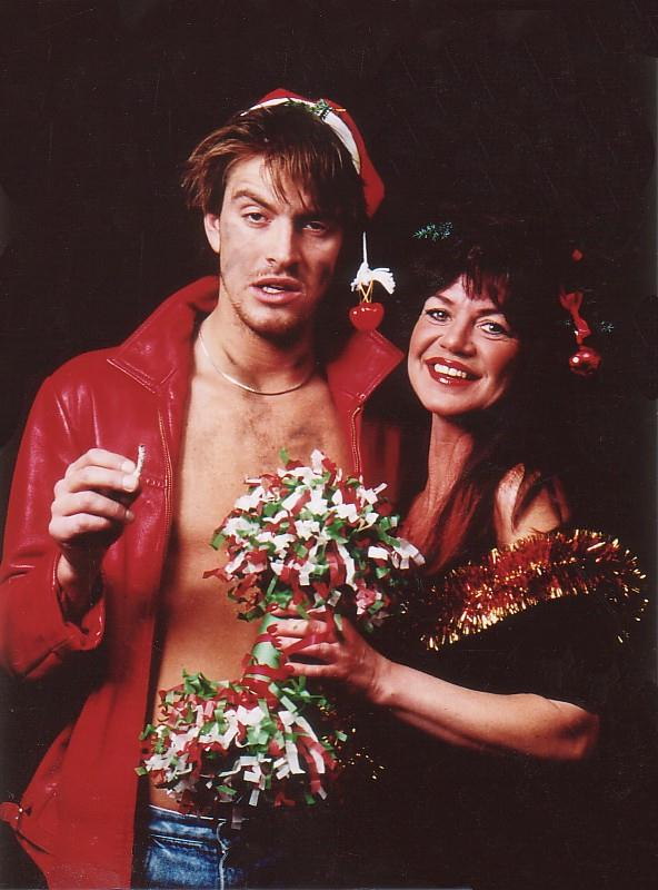 Ola Isedal and Agneta Lindén as Christmas comedians on the cover of a single record featuring Swedish versions of the Eartha Kitt classic "Santa Baby" and Birgit Ridderstedt's "I Love Christmas Time", as released by image creator Lars Jacob ProdPlace: Stockholm, Sweden